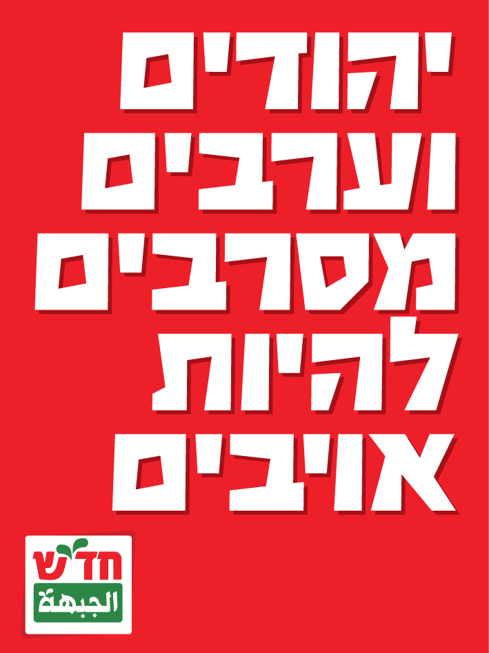 Hadash election campaign 2013